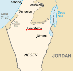 Beersheba on the map of Israel